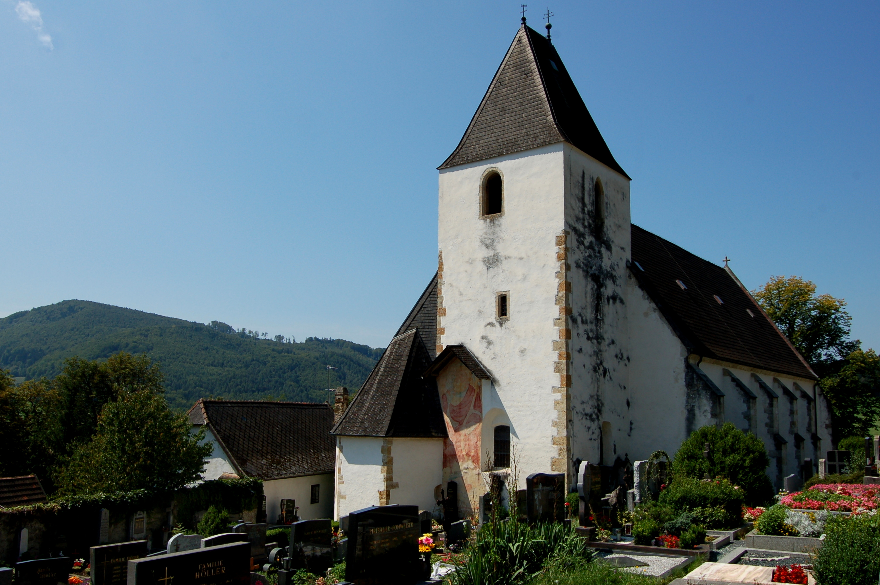 St. Lambert parish church and part of the churchyard in Bromberg, Lower Austria